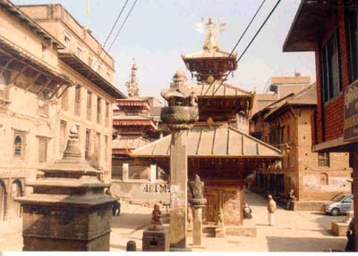 Dhulikhel, Nepal